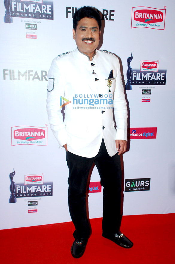 Shailesh Lodha at the red carpet of Filmfare Awards 2014.